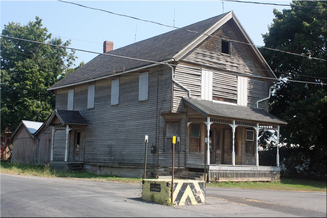 A photo of the old well and historic building at the intersection of Dublin and Nine Foot roads in Seneca County, New York.